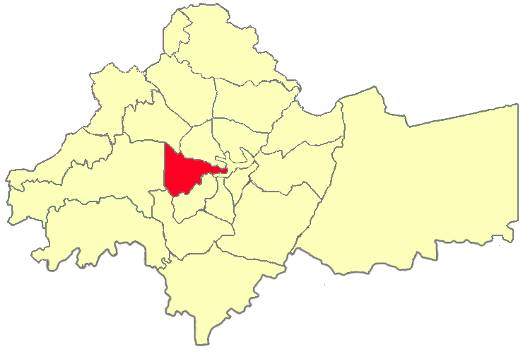 Amman districts